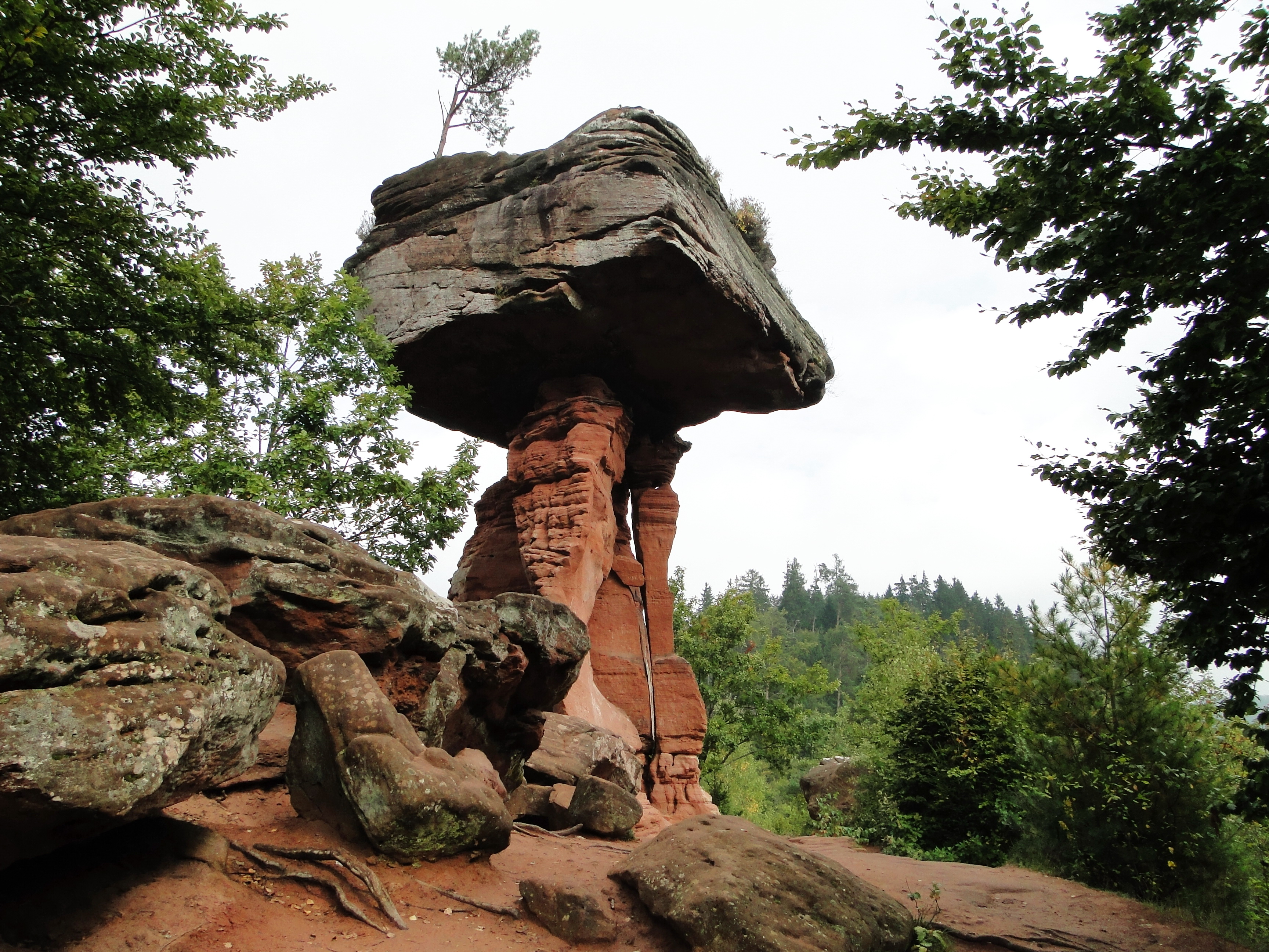 The "Teufelstisch" (Devil's Table) a rock formation (8m height, upper plate: 300t ) in the Palatinate Forest Nature Park (Germany)